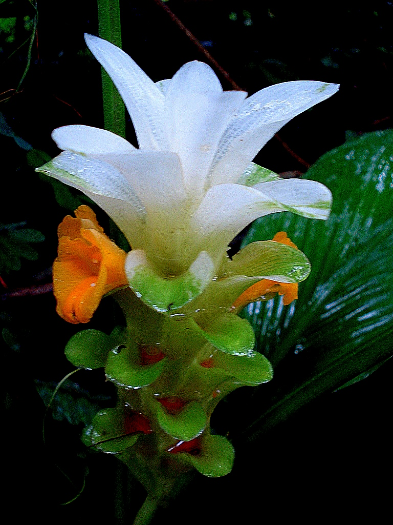 Koova, commonly called arrowroot is a group of ginger like plants with sizes ranging from less than two feet to six feet and color from white to dark purple. The underground stem of the plant is the usable part, which yields flour. The rhizome is also eaten boiled. Flouring is necessary for better preservation and for making different culinary items like biscuits. The cultivation of this crop is largely on decline in the state. It has medicinal properties and is used in curing disorders to stomach. Maranta arundinaceae belongs to the family Marantaceae.